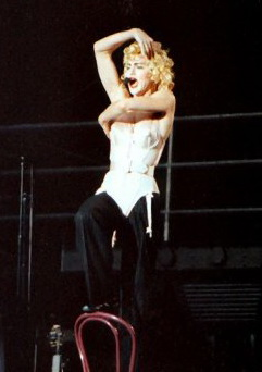 Photo taken by a fan during one of the 1990 concerts